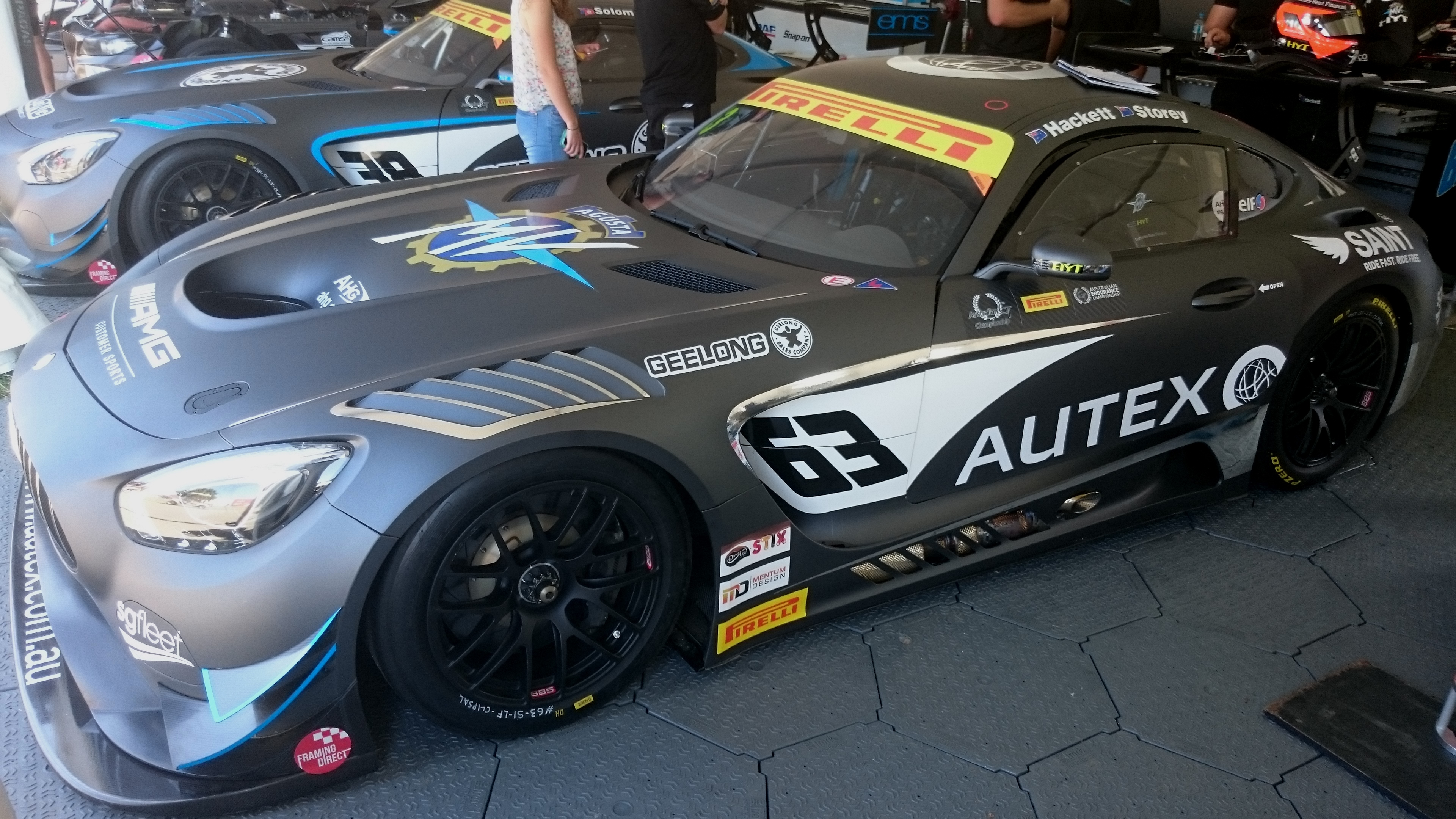 The Mercedes-AMG GT3 of Peter Hackett and Dominic Storey. Round 1, 2016 Australian GT Championship, Adelaide Parklands Circuit.